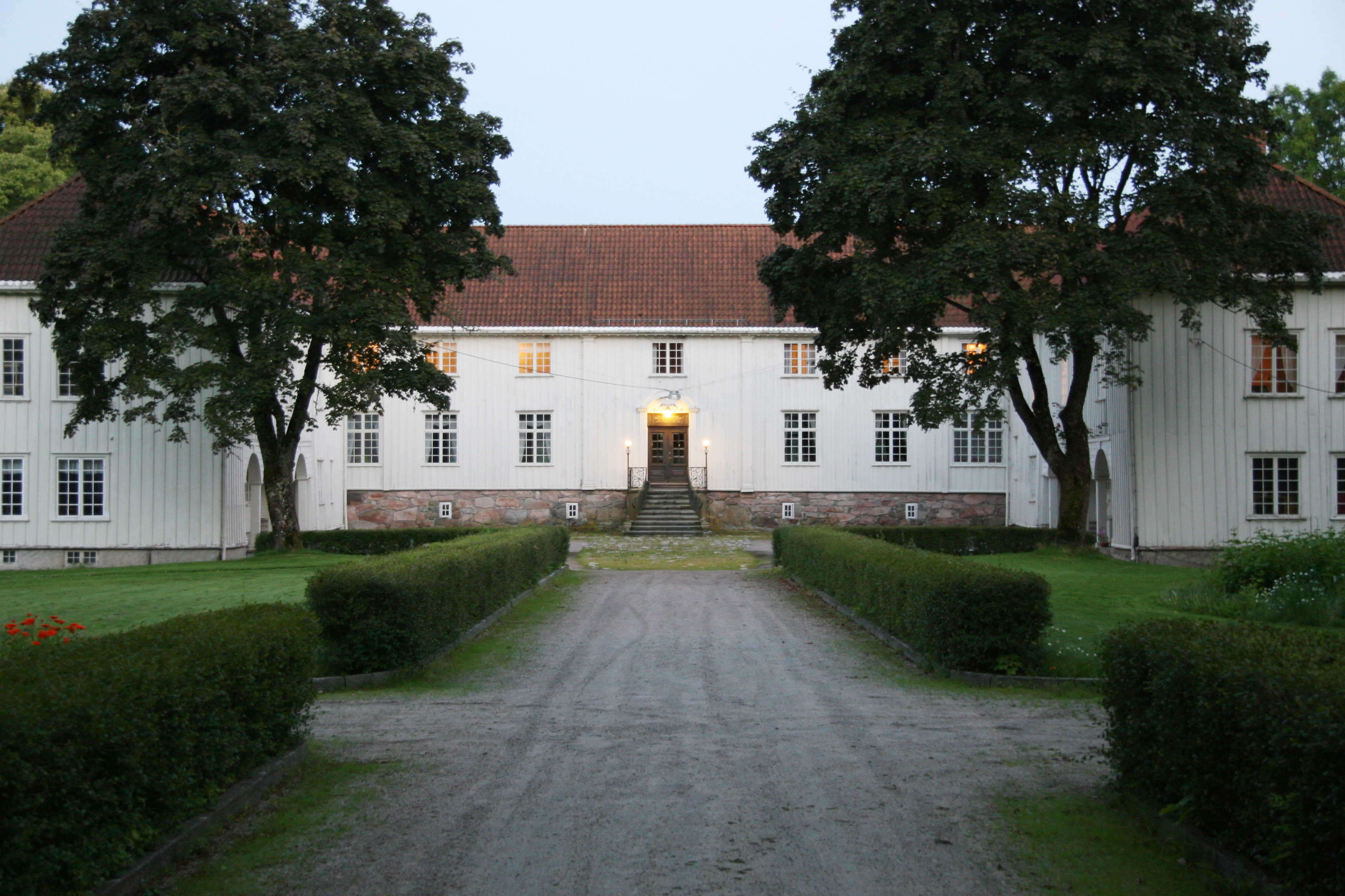 The main entrance to the main building of Elingaard